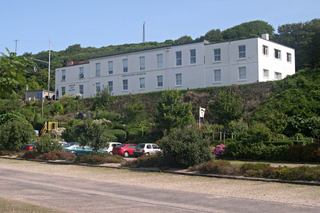 Porthcurno Telegraph Museum Dedicated to all things to do with the telegraph network which enabled global communications in the late 19th and early 20th century. At that time Porthcurno was perhaps the most important communications nexus in the world.